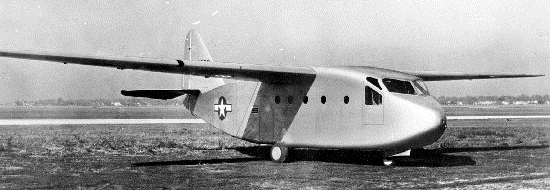 Chase XCG-18A glider prototype. (Note 1947 insignia.)